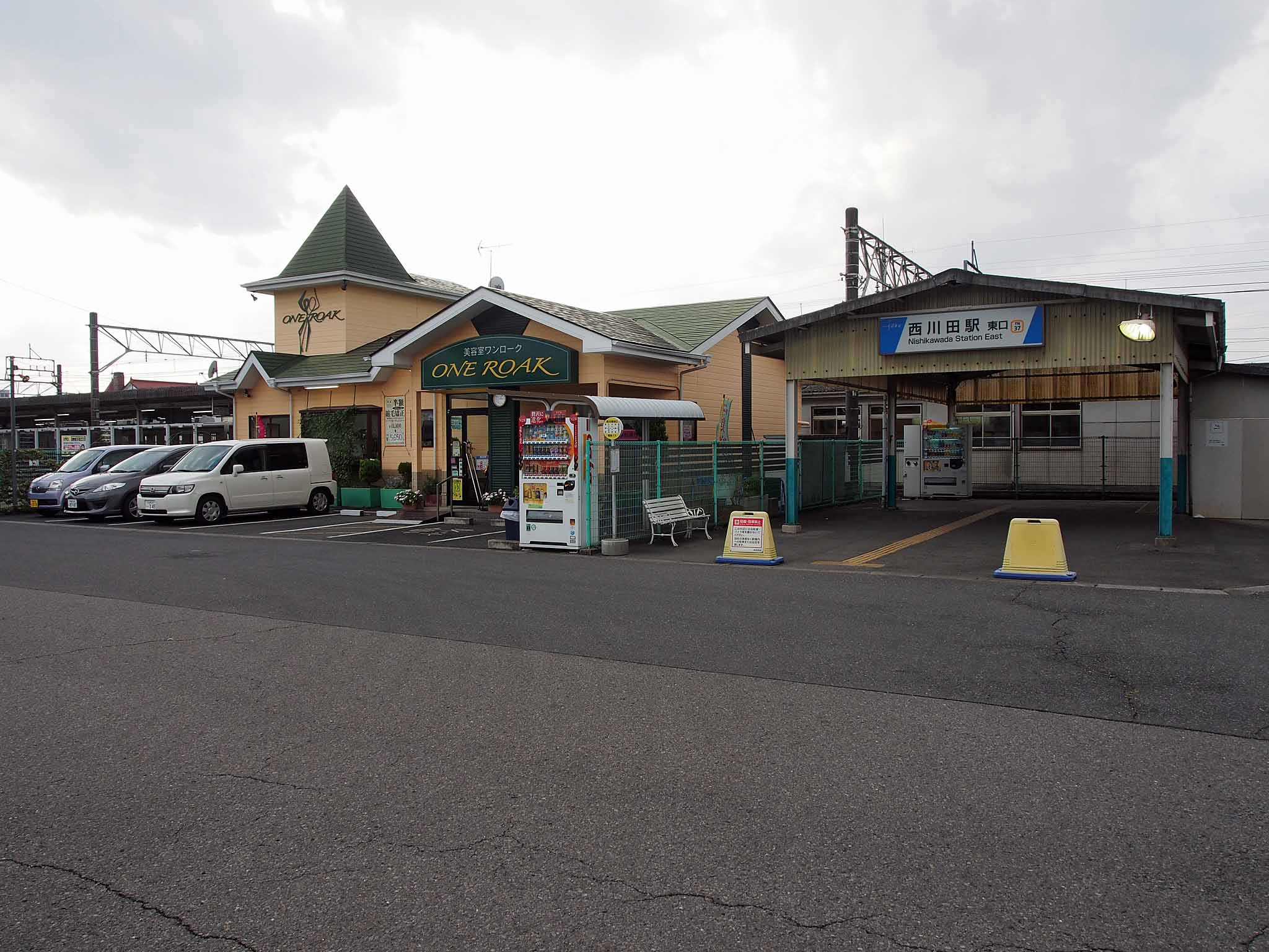 East Entrance of Tobu Nishi-Kawada Station.